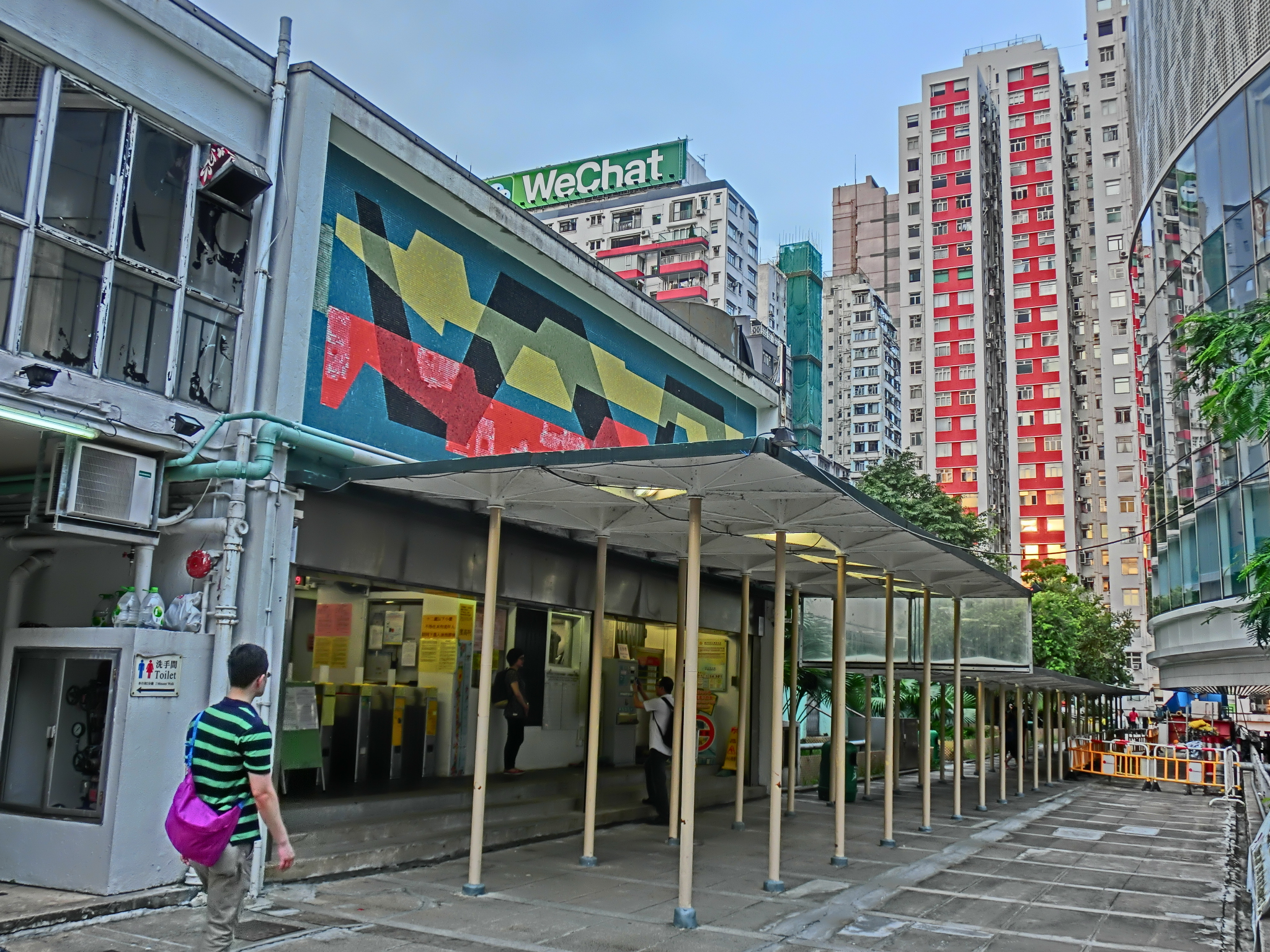 維多利亞公園游泳池, Victoria Park Swimming Pool, Causeway Bay, Hong Kong